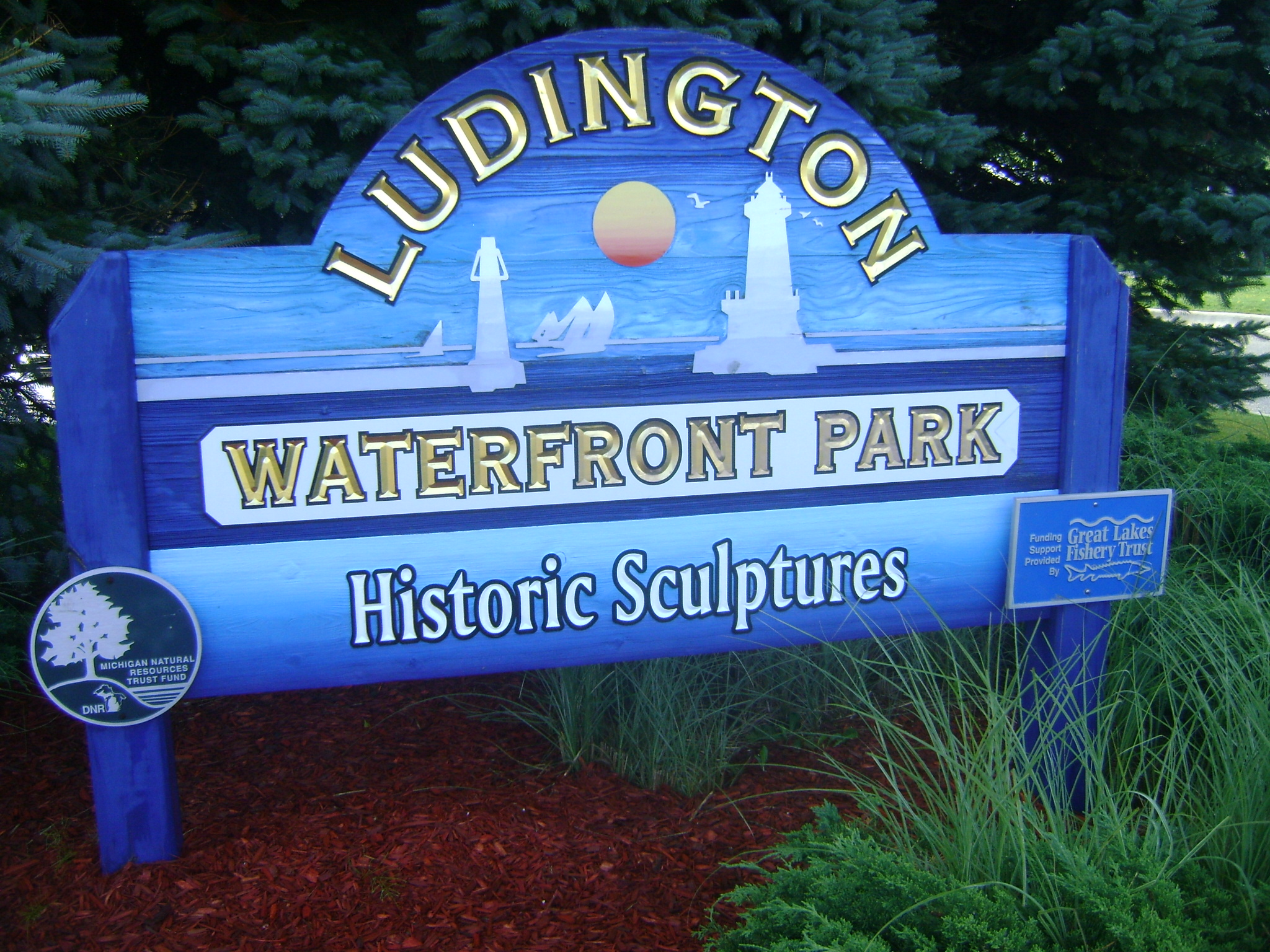 Waterfront Park Historic Sculptures entrance sign